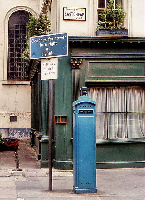 Strictly a “pillar” rather than a “box”: Police telephone pillar – a City of London Police example at Eastcheap (corner of Rood Lane). Since removed.